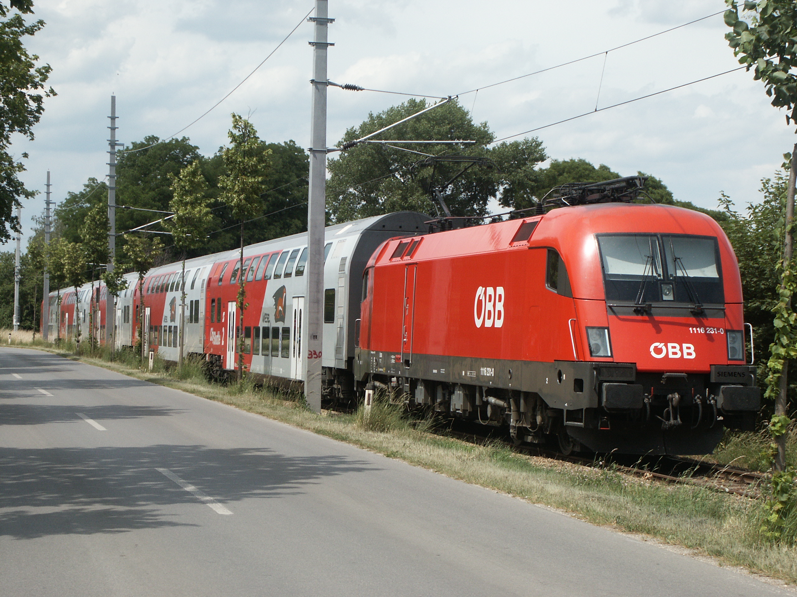 A train at the end of abolished railway line between Laa and der Thaya and Hevlín, only 700 meters from the former rail border crossing.